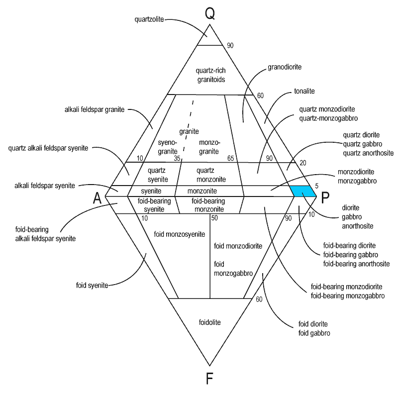 QAPF diagram, with diorite place marked